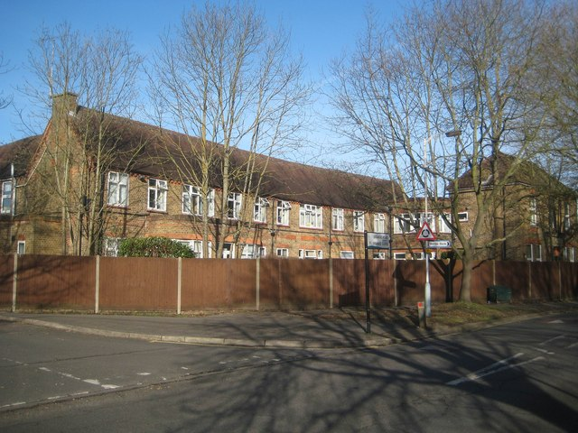 The former Hayes Cottage Hospital